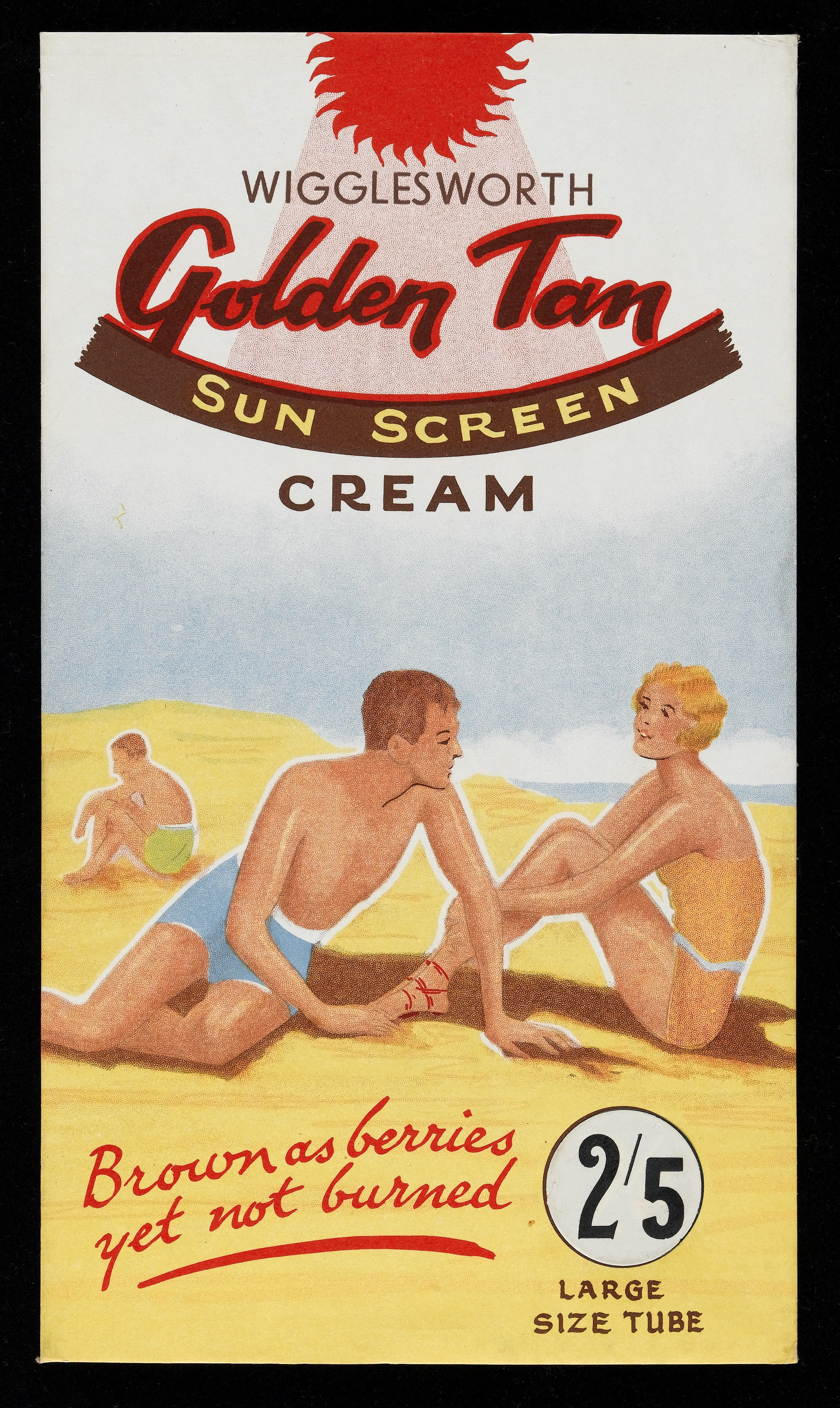 Advert for Wigglesworth "Golden Tan" sun screen cream showing a couple sitting on a beach General Collections Keywords: UV light; Product; Sunbathing; Wigglesworth Golden Tan Sun Screen Cream.; Advertisements; Sunscreen; Protection; Health; Advertisement; Sunburn; Ultraviolet Rays; Sunscreening Agents